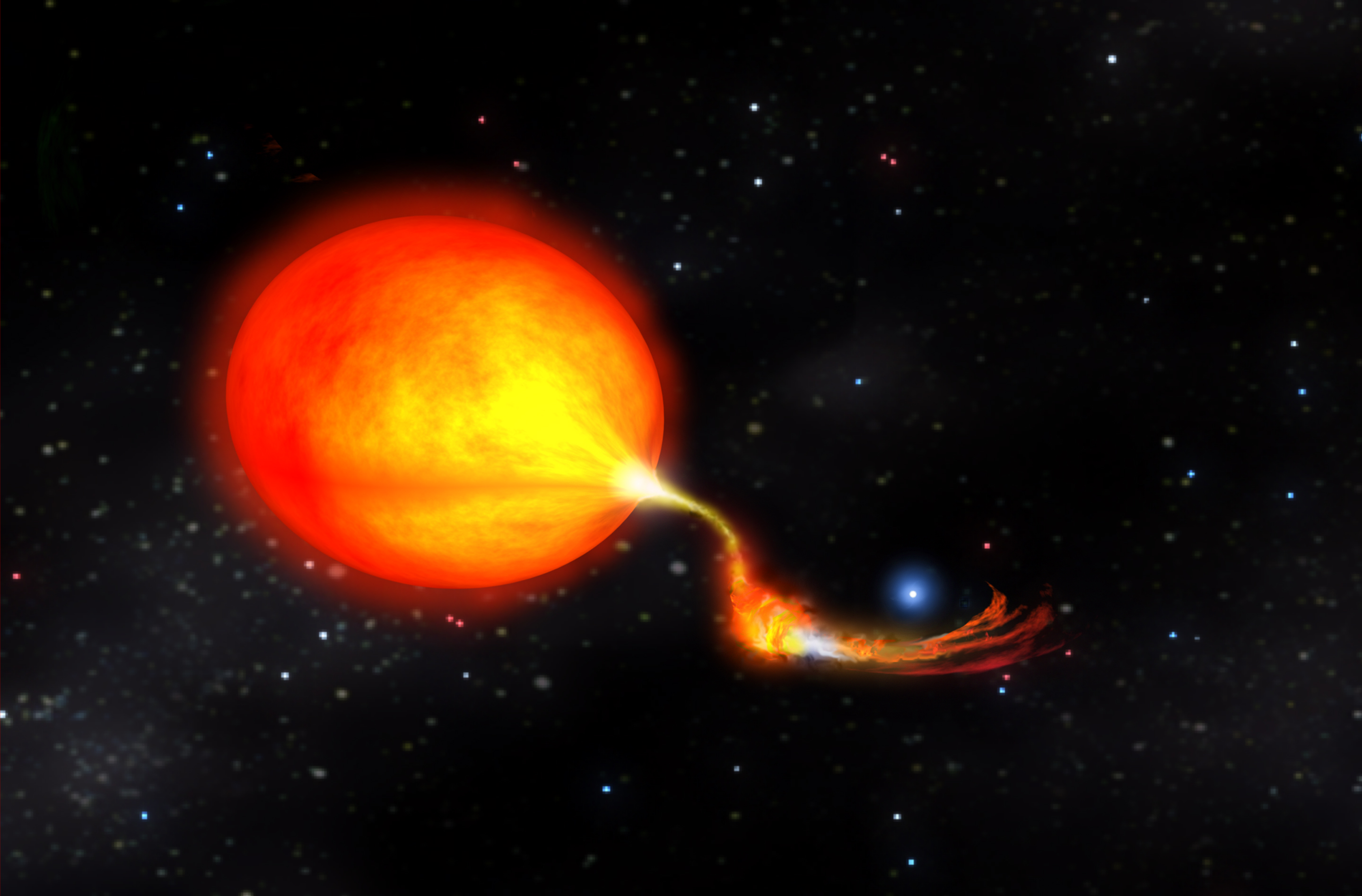 If a pulsar - a dense star with strong gravitational attraction - is in a binary system, then it can pull in, or accrete, material from its companion star. This influx of material can eventually spin up the pulsar to the millisecond range, rotating hundreds of revolutions per second.